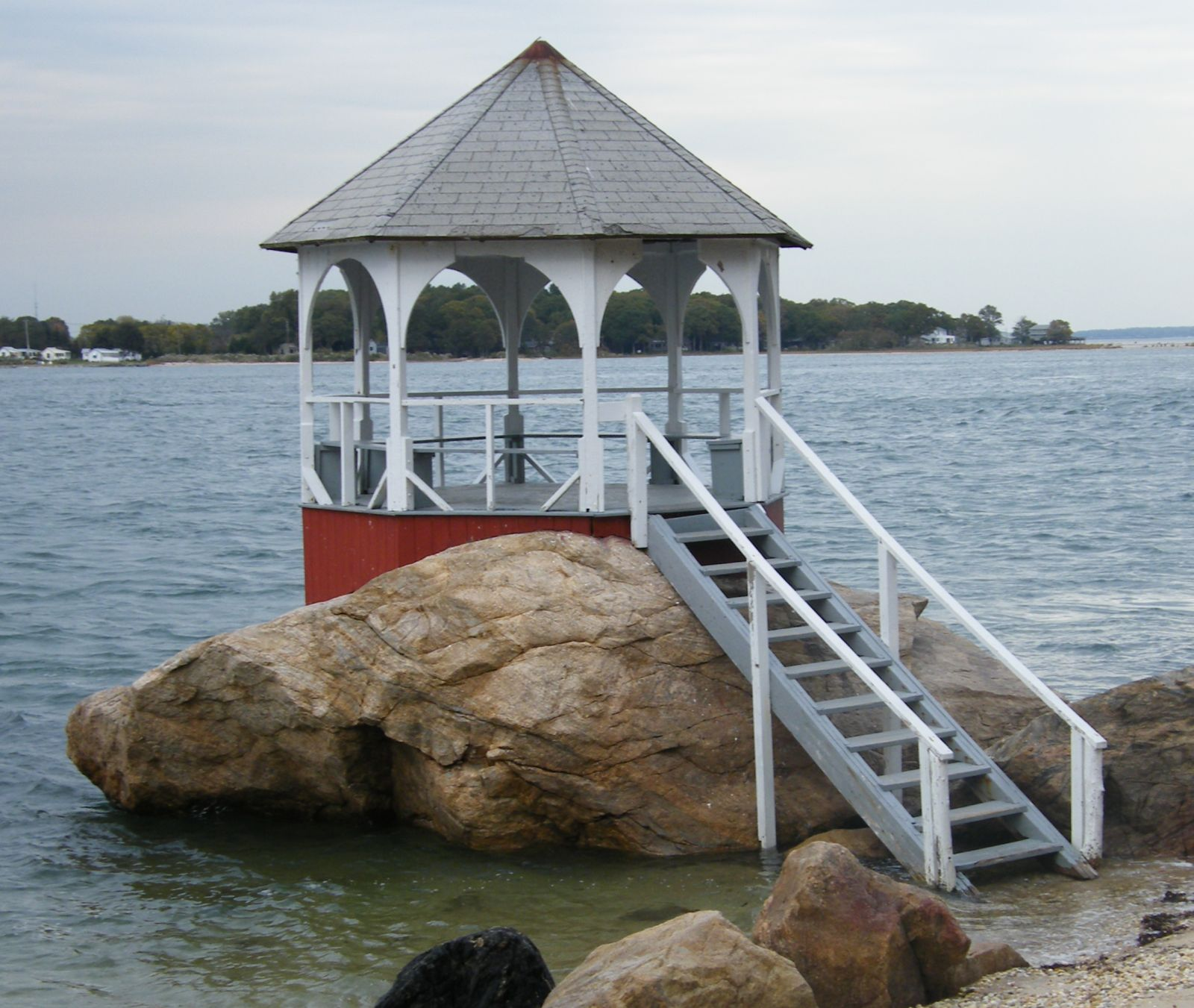 Camp Quinipet on Staten Island New York